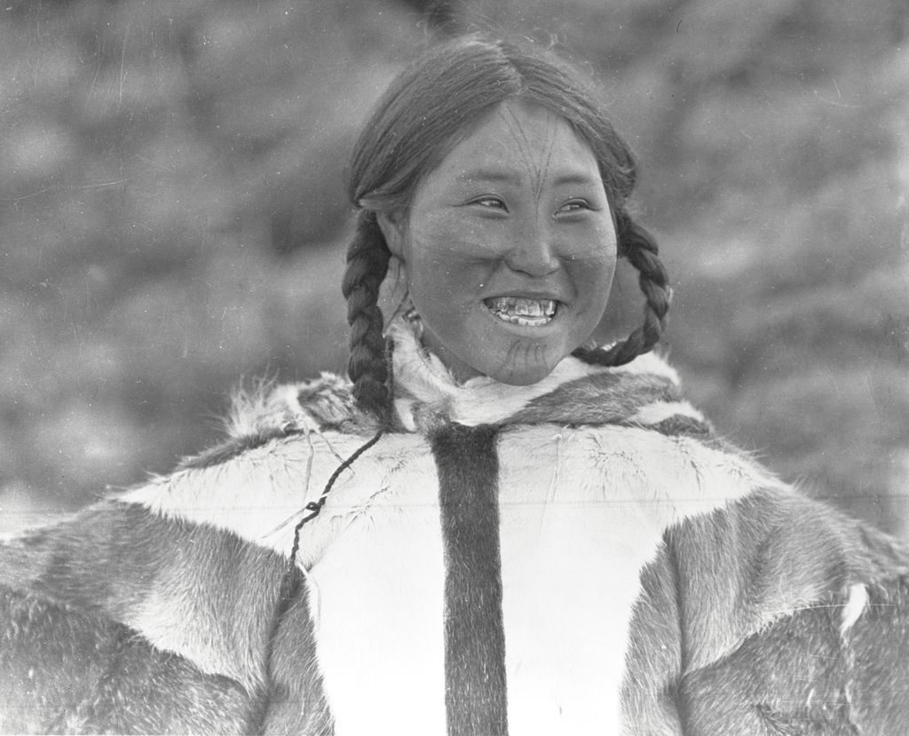 Kila, young Dolphin and Union Strait woman, front view, head and shoulders, showing facial tattooing, Bernard Harbour, N.W.T. (Nunavut).